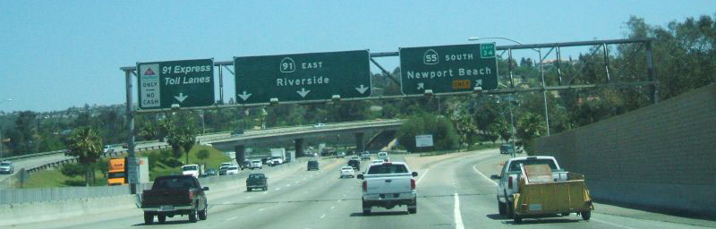 On the way home. on the 91, heading towards the 55 South.